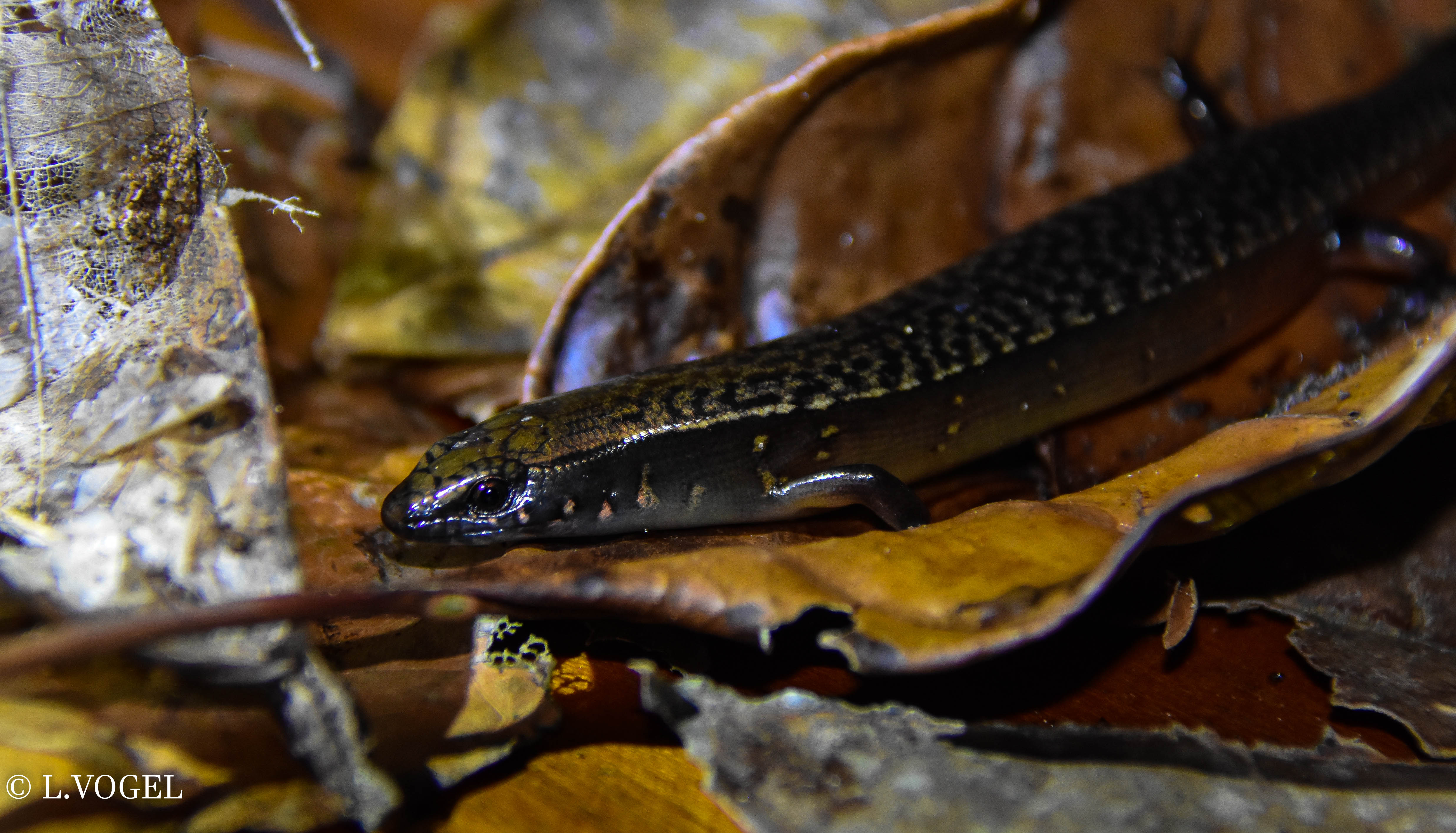 Diploglossus bilobatus, observed at the Research Station near of National Park of Cahuita in Costa Rica